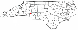 Category:North Carolina Dot Maps